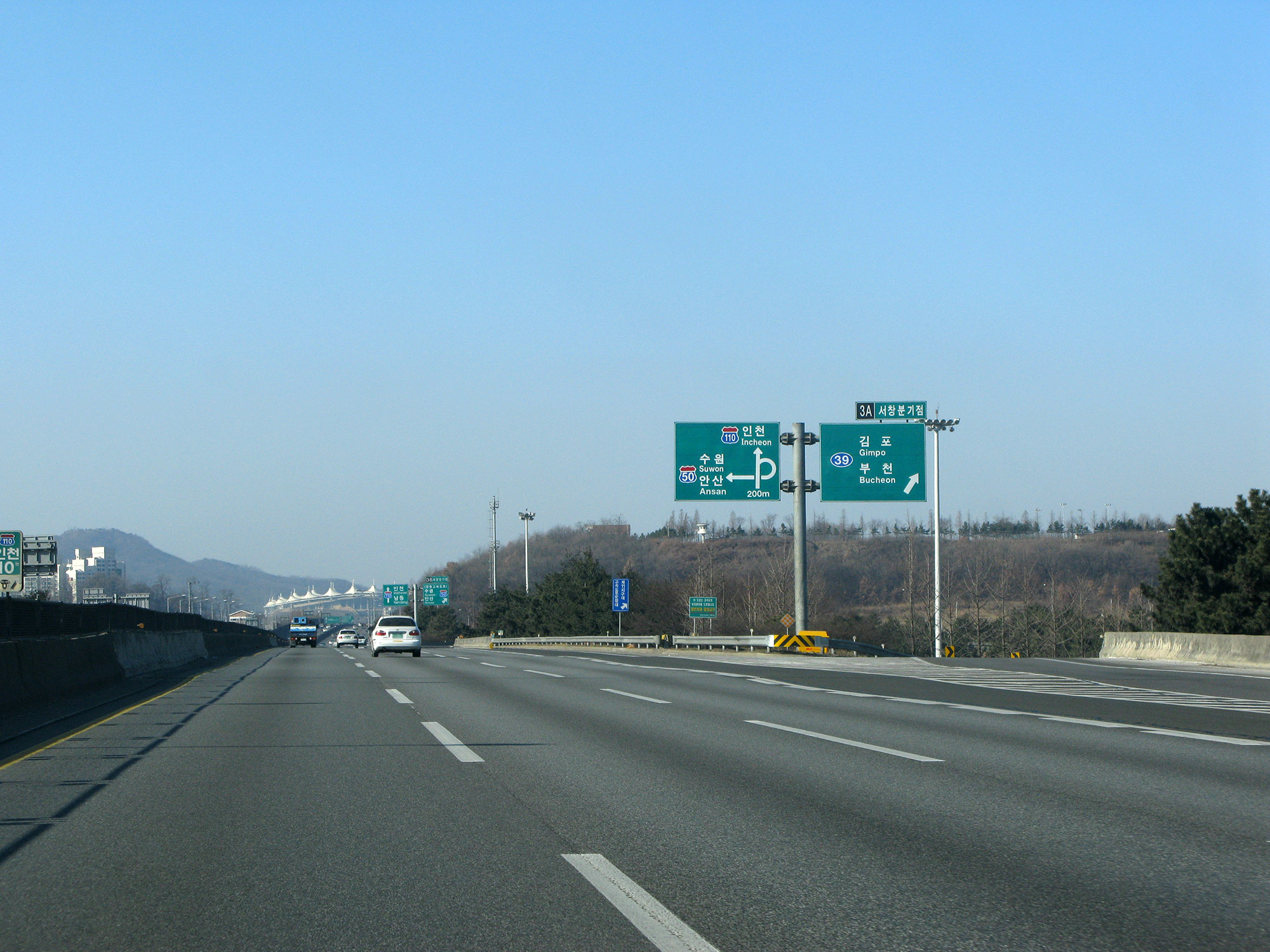 Yeongdong Expressway, 2nd Gyeongin Expressway Seochang JCT